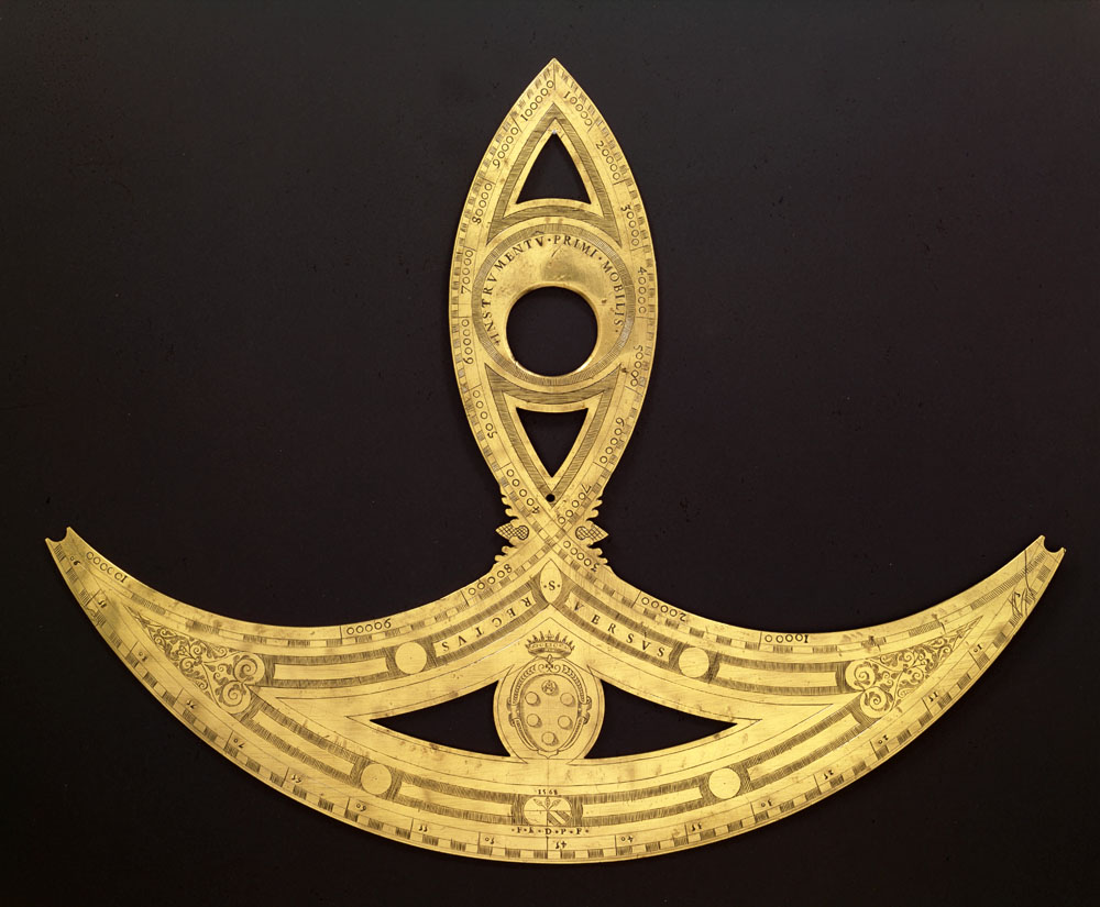 AuthorPeter Apianus; Egnazio DantiDescription